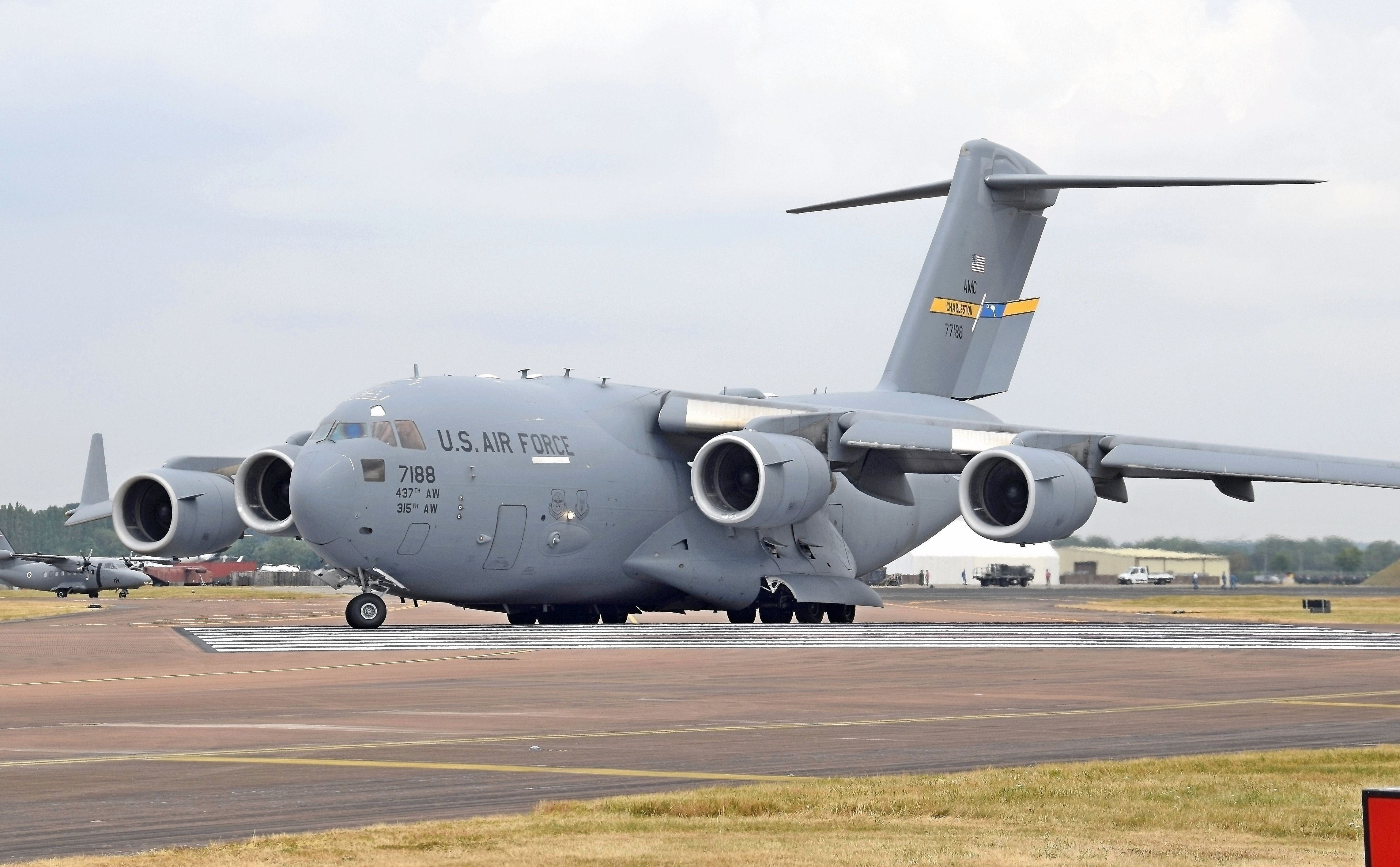 Boeing C-17A III Globemaster (serial 07-7188) of the USAF taxis to depart the 2018 Royal International Air Tattoo, RAF Fairford, England.